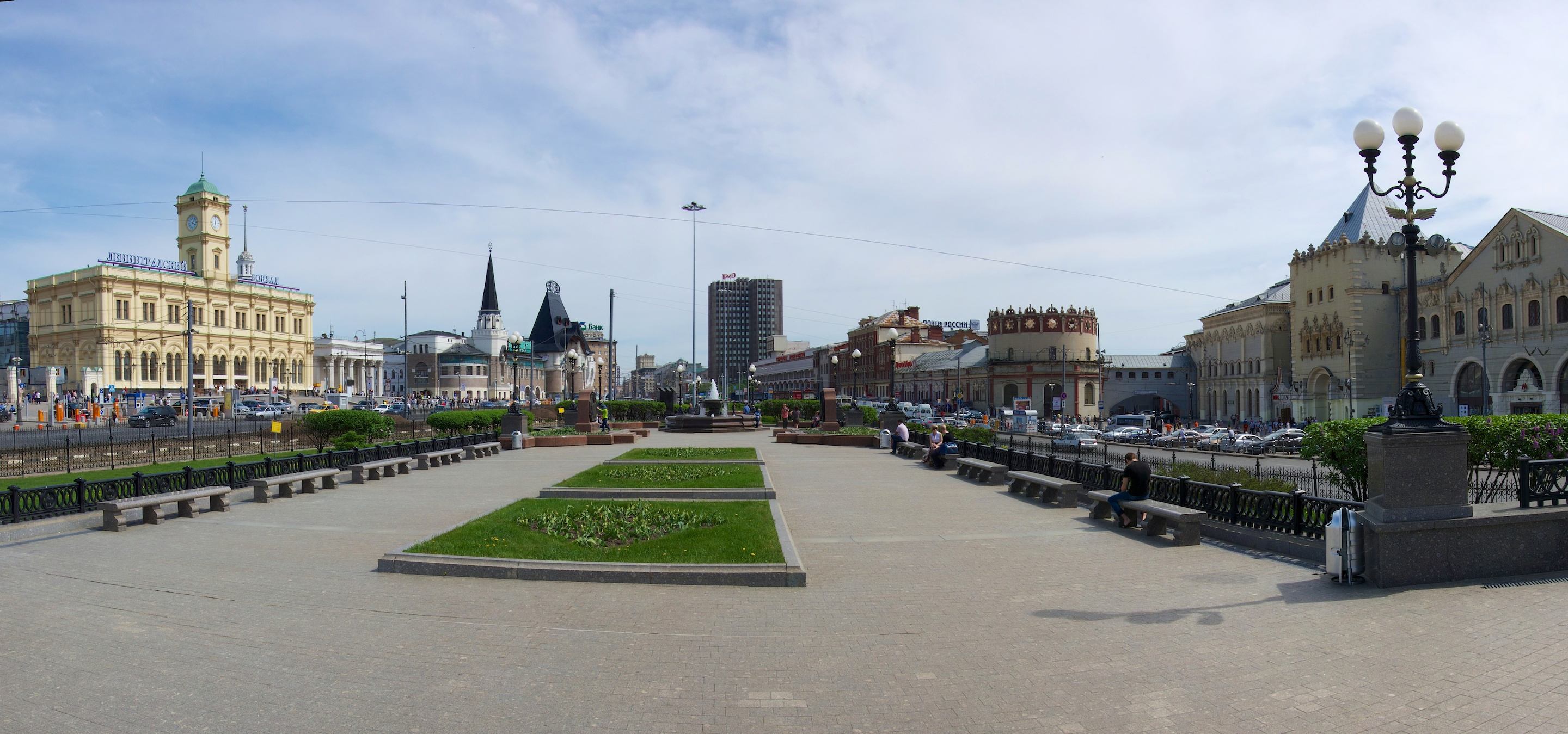 Square of Three Train Terminals / Moscow, Russia